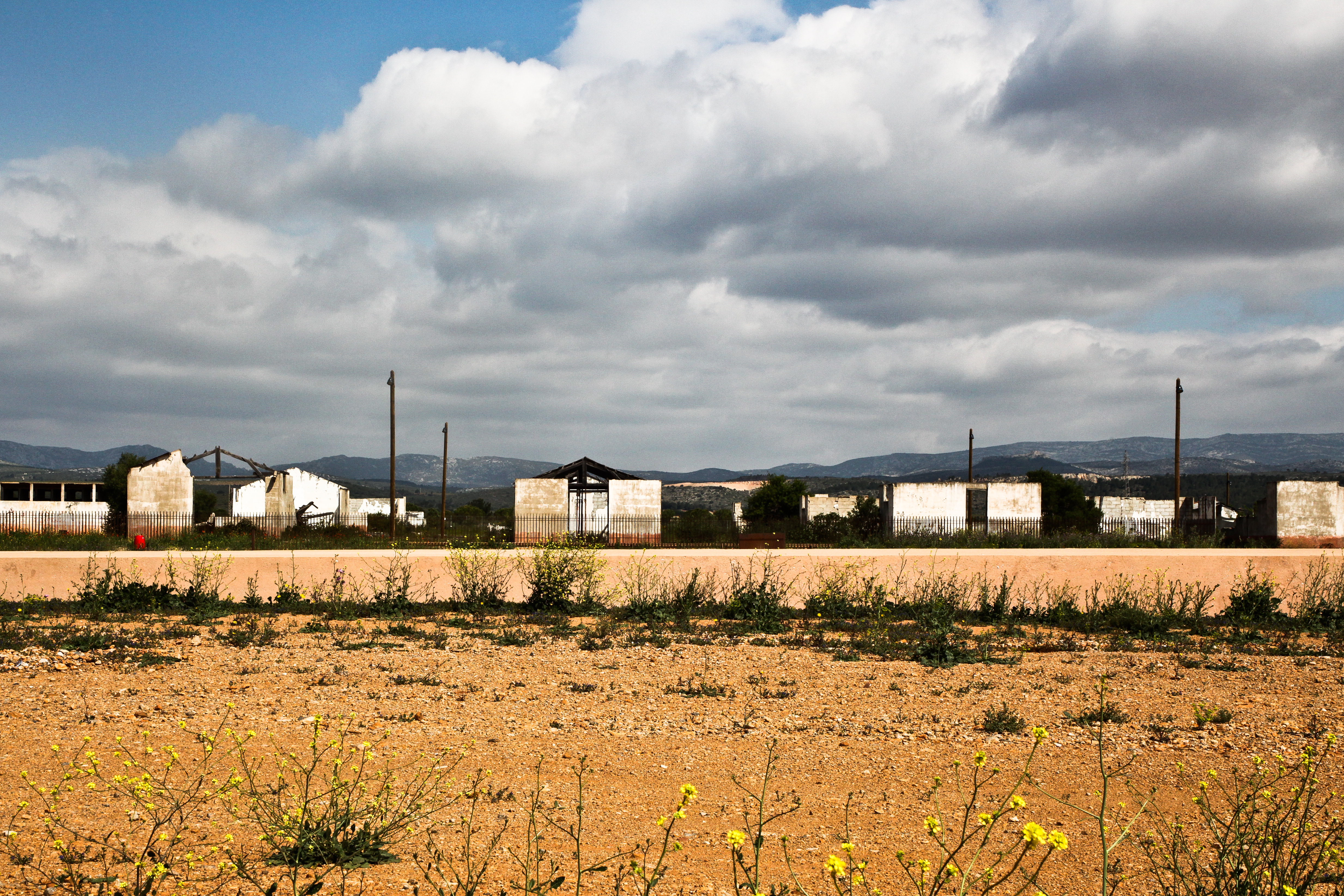 The Rivesaltes camp and the Memorial, France .